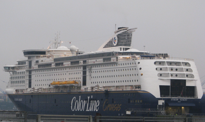 M/S Color Magic of Color Line Cruises in Kiel harbour